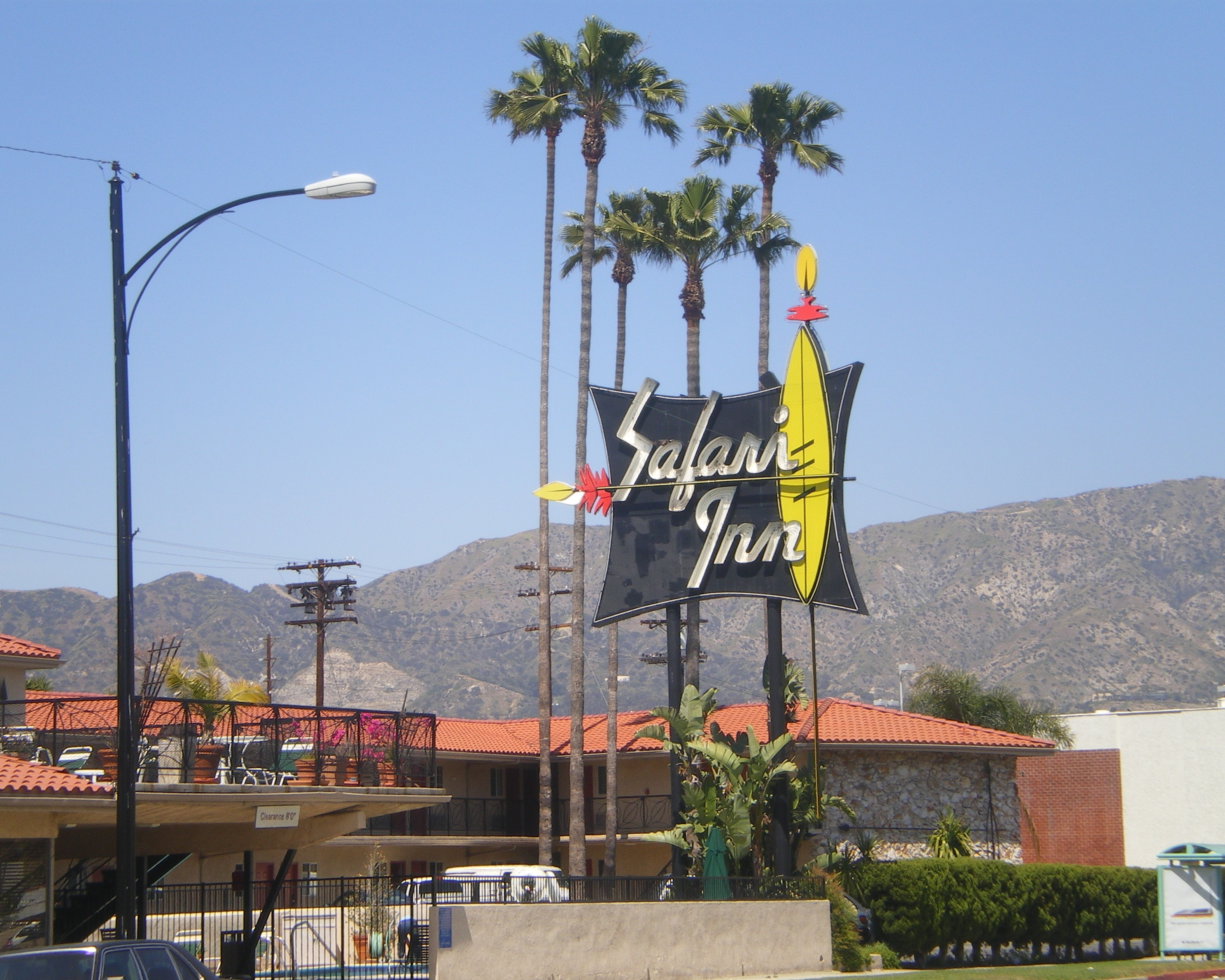 Safari Inn, Olive Avenue, Burbank, California